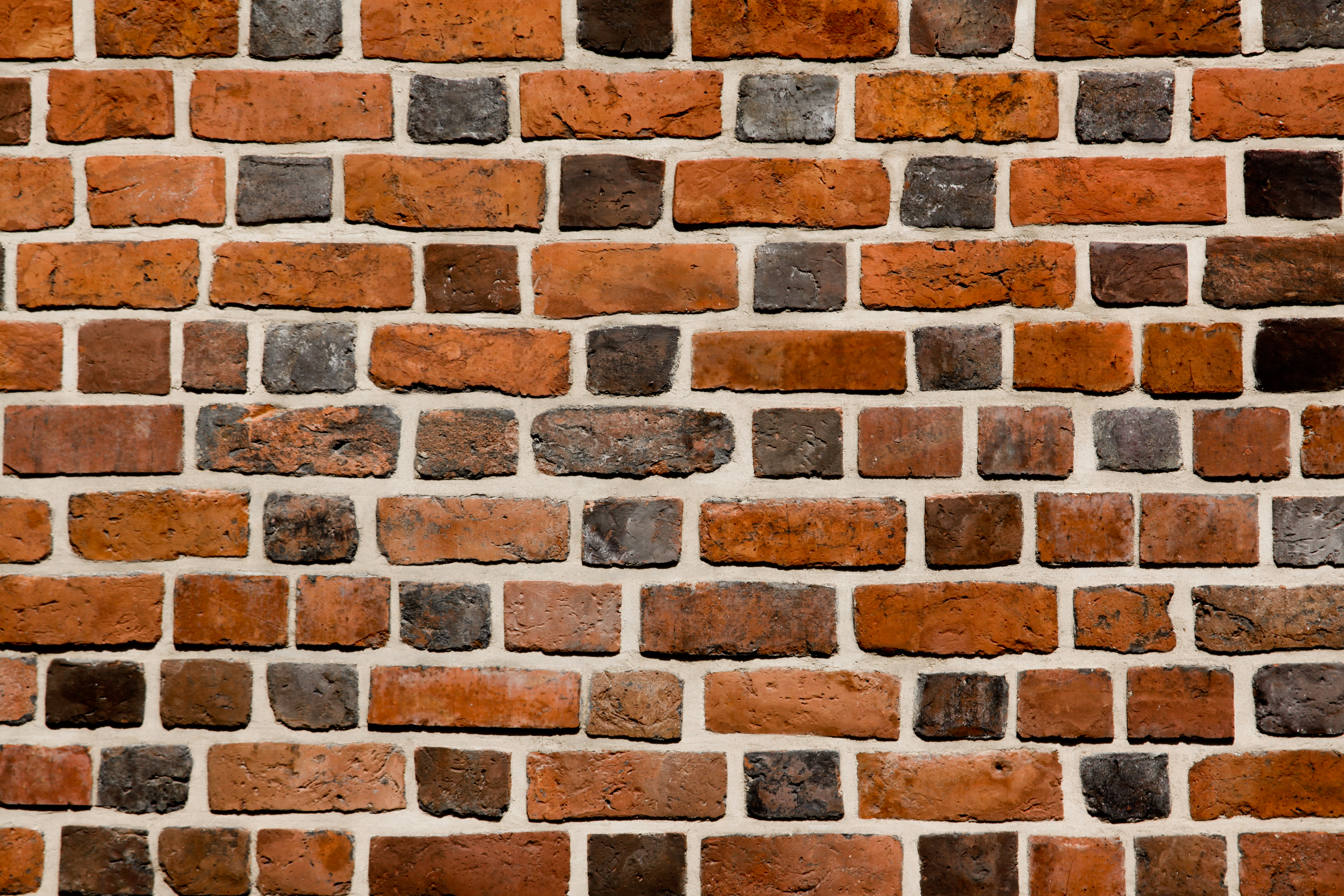 Brick wall close-up view